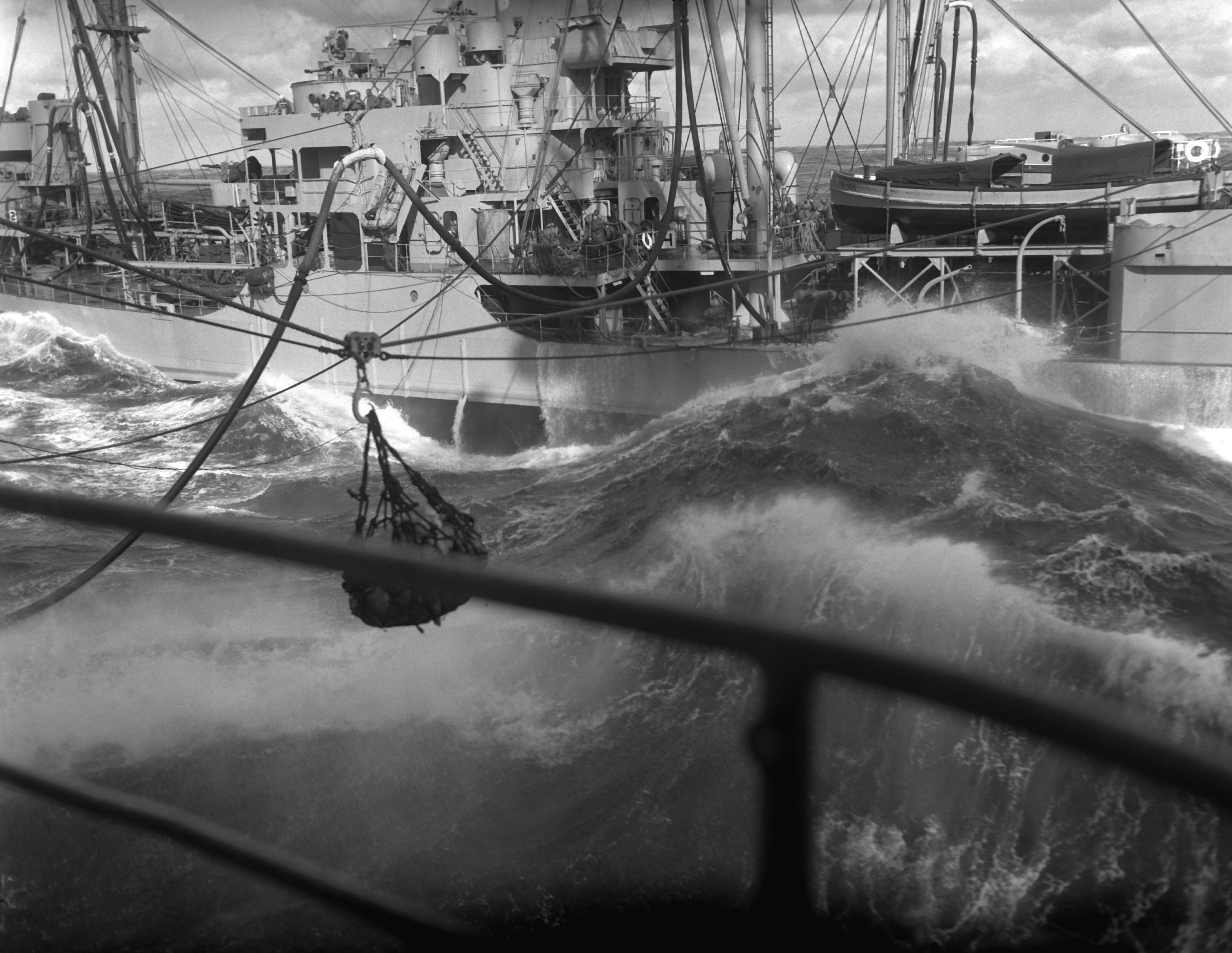 The U.S. aircraft carrier USS Kearsarge (CVA-33) being replenished by the fleet oiler USS Mispillion (AO-105) during rough sea off Korea on 18 December 1952.